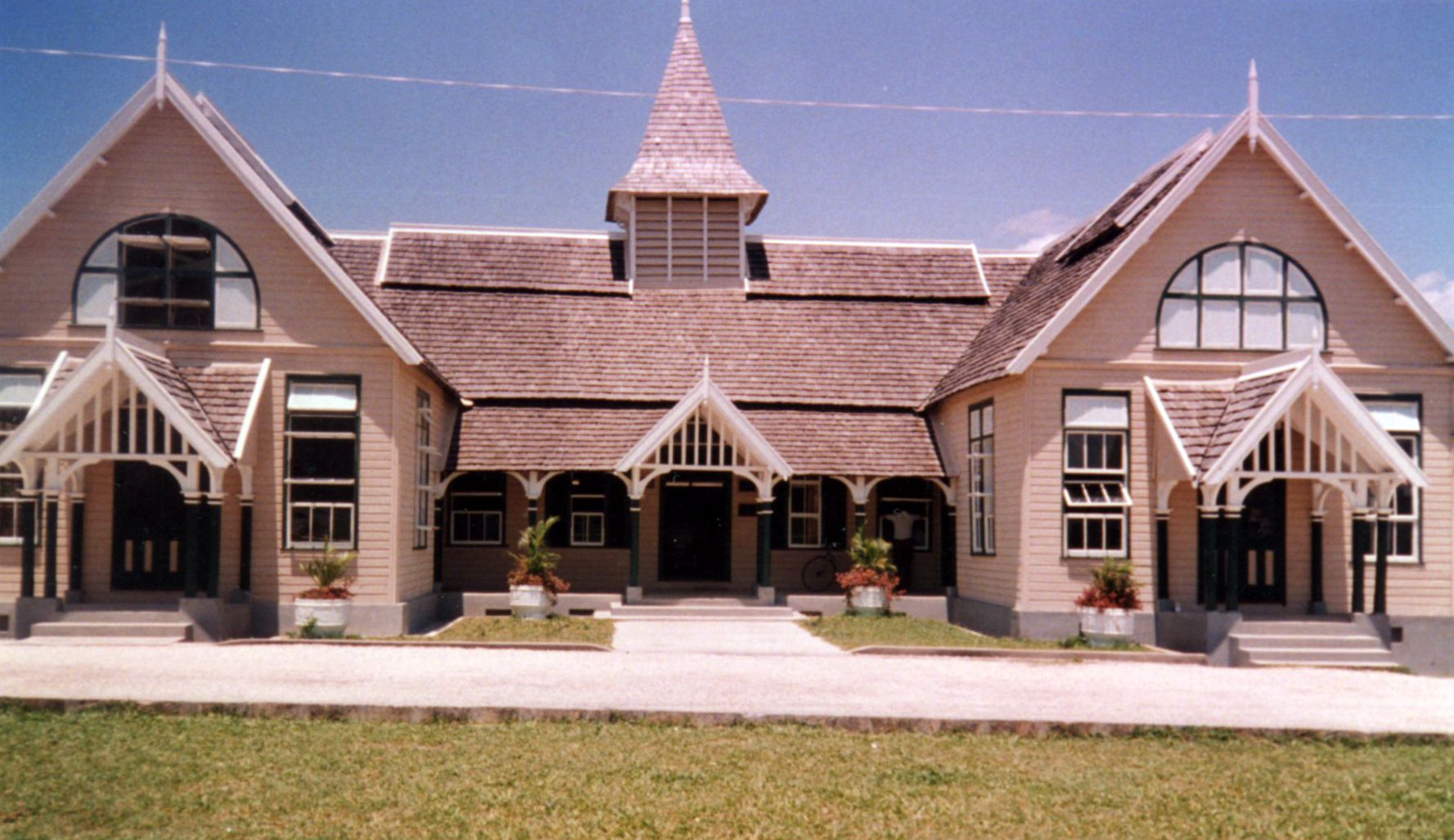 Manning's High School (Savanna-la-Mar, Jamaica) in August 1990.